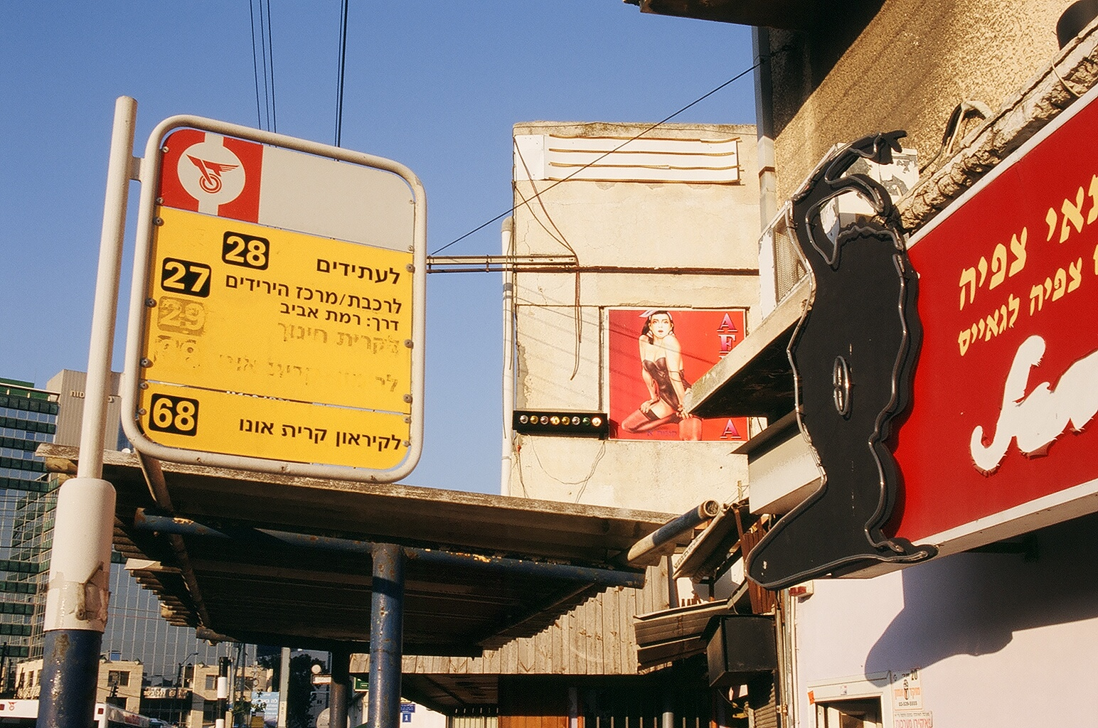 Israel, Tel Aviv, Salomon street, Bus stop "Old Central Station/Salomon" Numéro d’arrêt : 21302 - Israel 6th day (26 March 2005) photo number 030